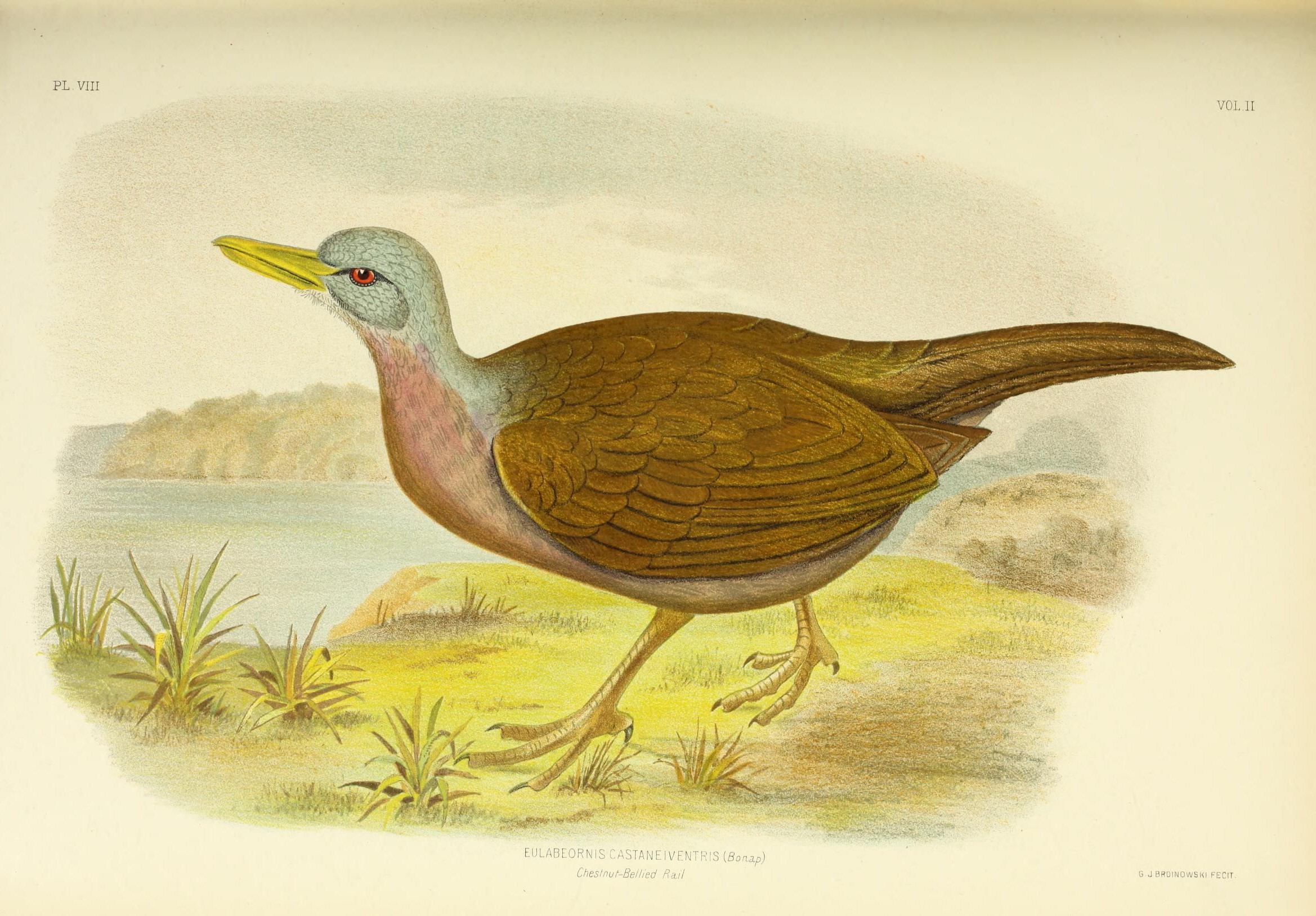 The birds of Australia